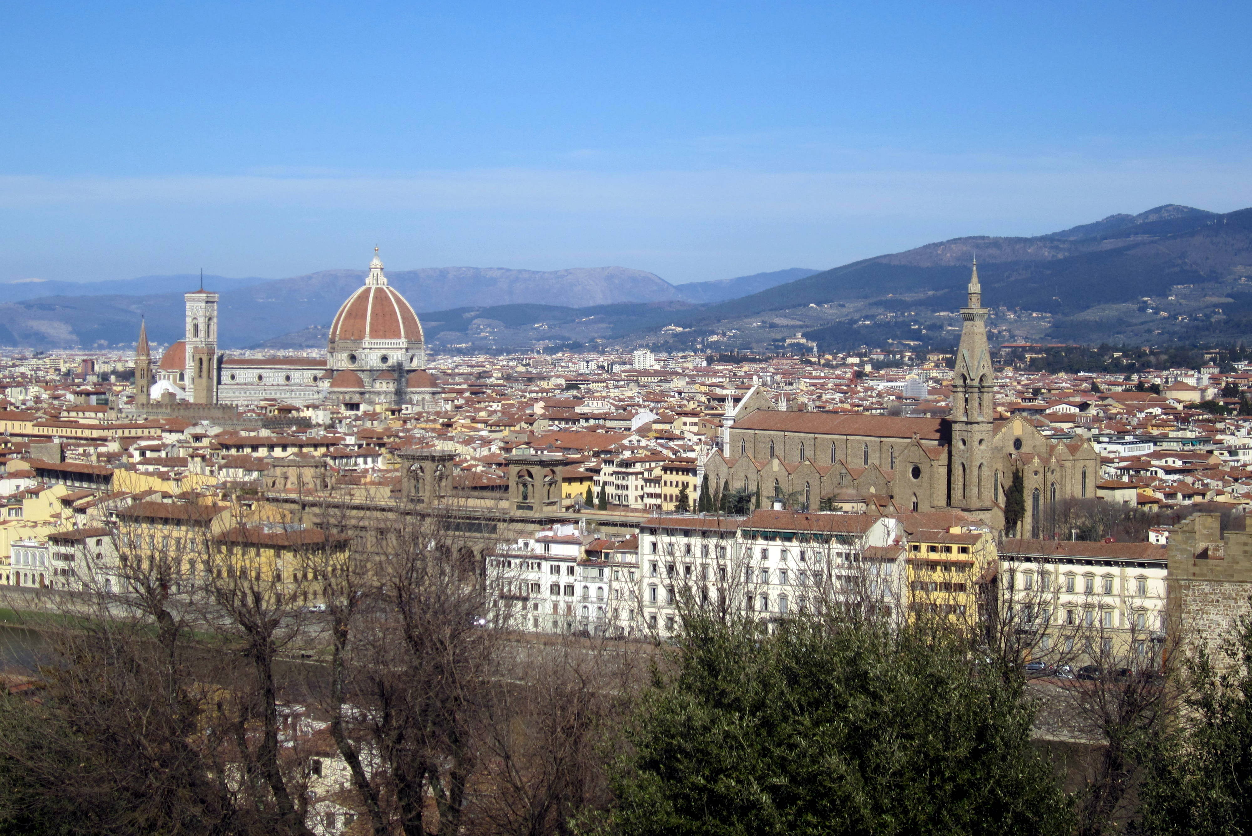 florence